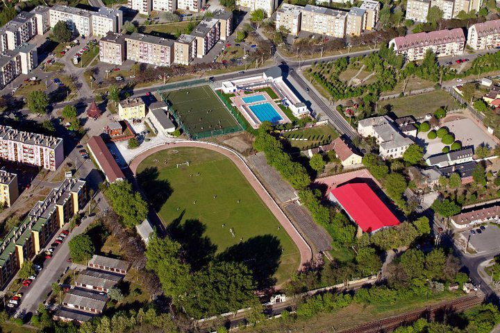 Stadium prospect from airplane